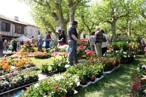 Plant and flower market in Fourcès